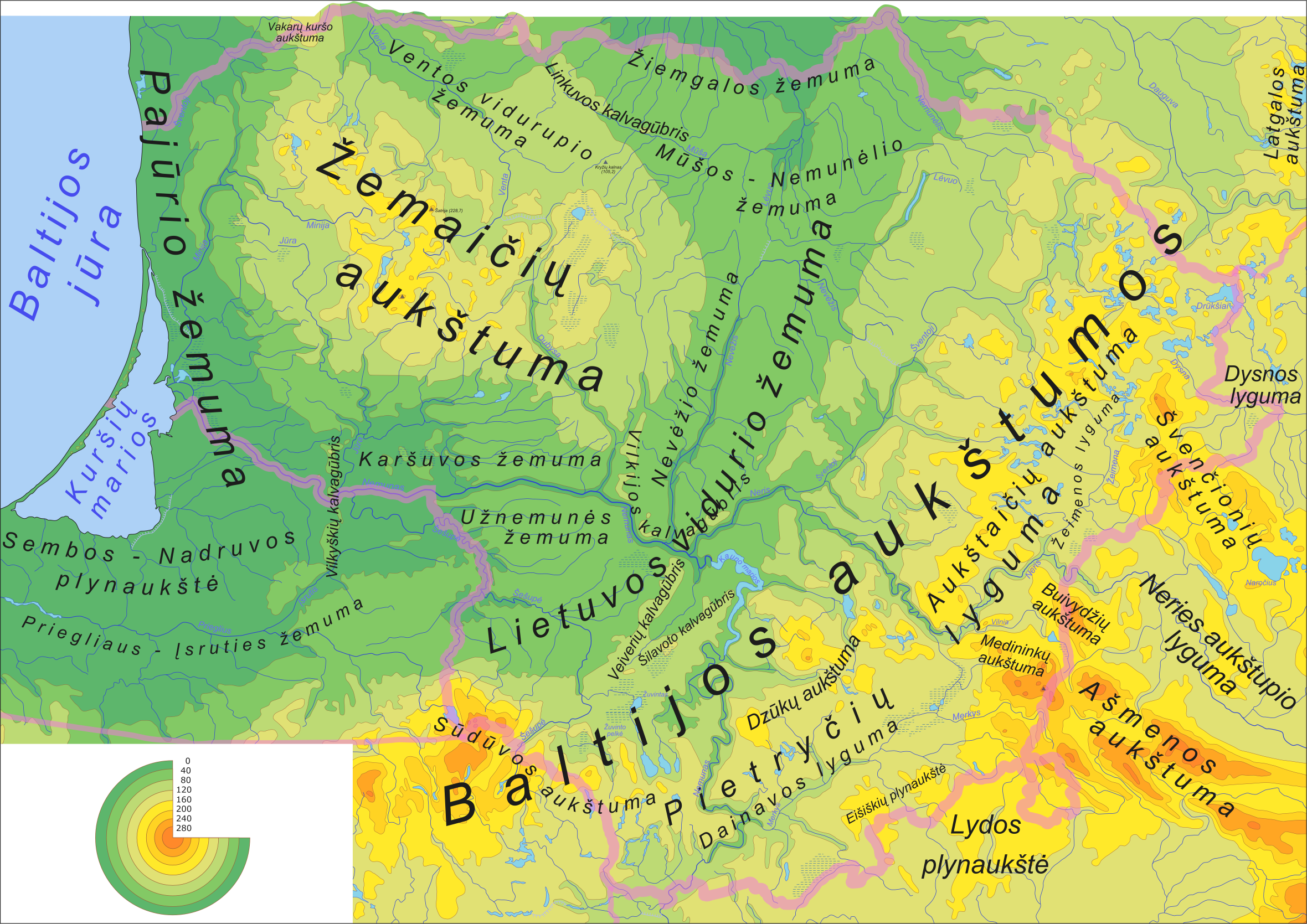 Physical map of the Lithuania with lithuanian labels. Created from Image:LithuaniaPhysicalMap-lt.svg